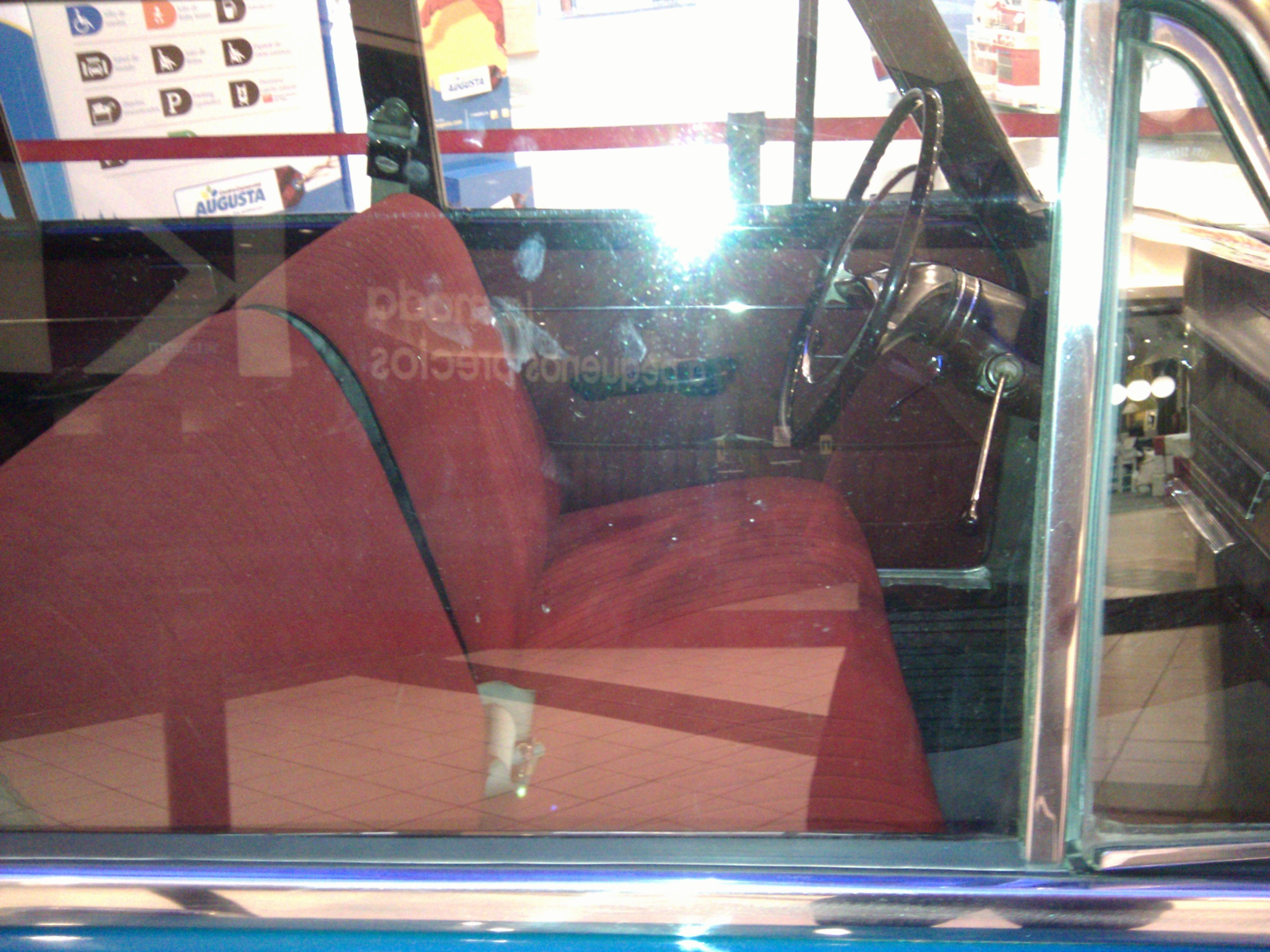 SEAT 1500 in a shopping mall in Spain.